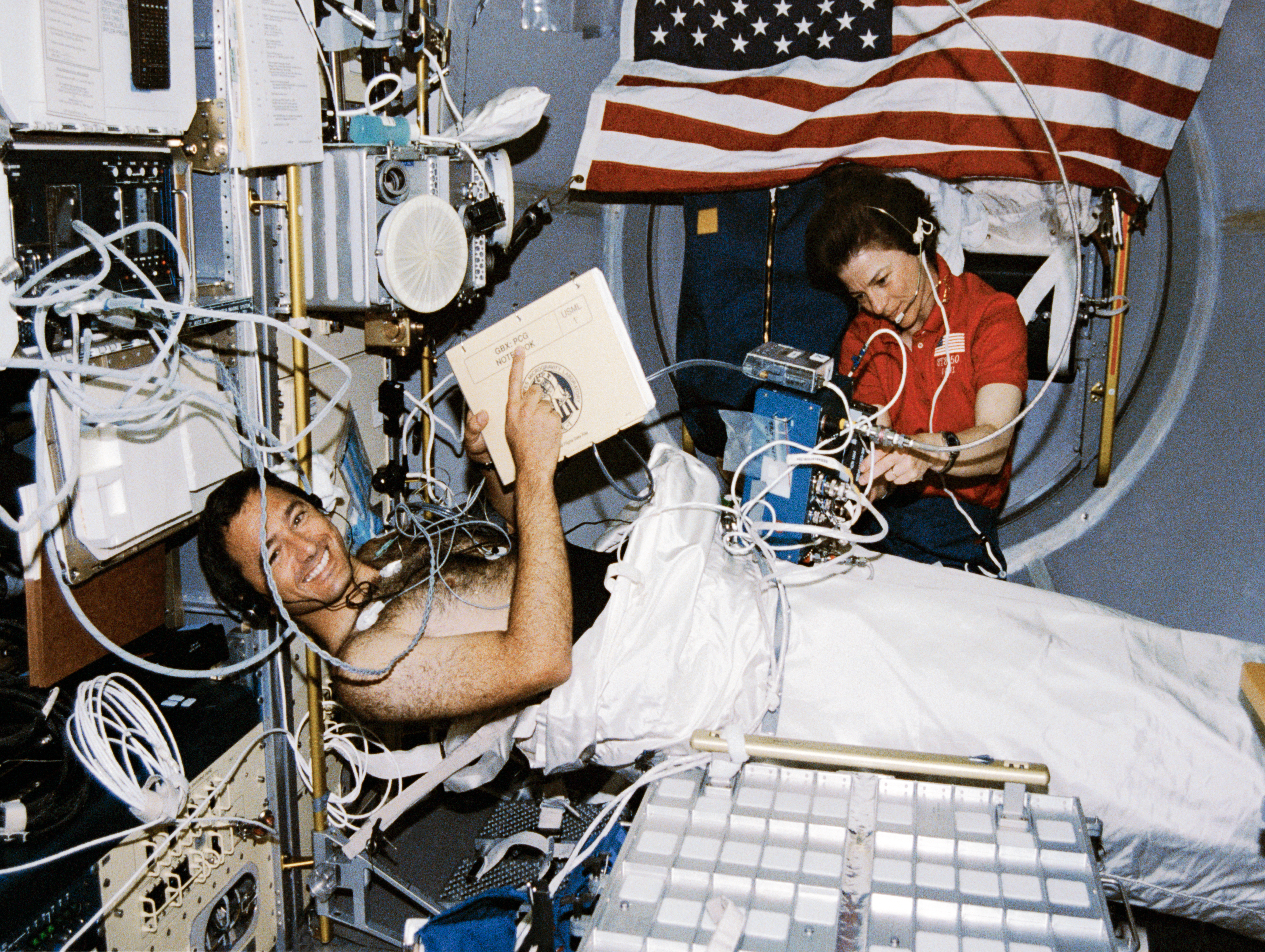 Mission Specialist Bonnie Dunbar and Payload Specialist Lawrence DeLucas in the spacelab with the Lower Body Negative Pressure Study. DeLucas is encased in the suit and Dunbar is administering and overseeing the procedure.